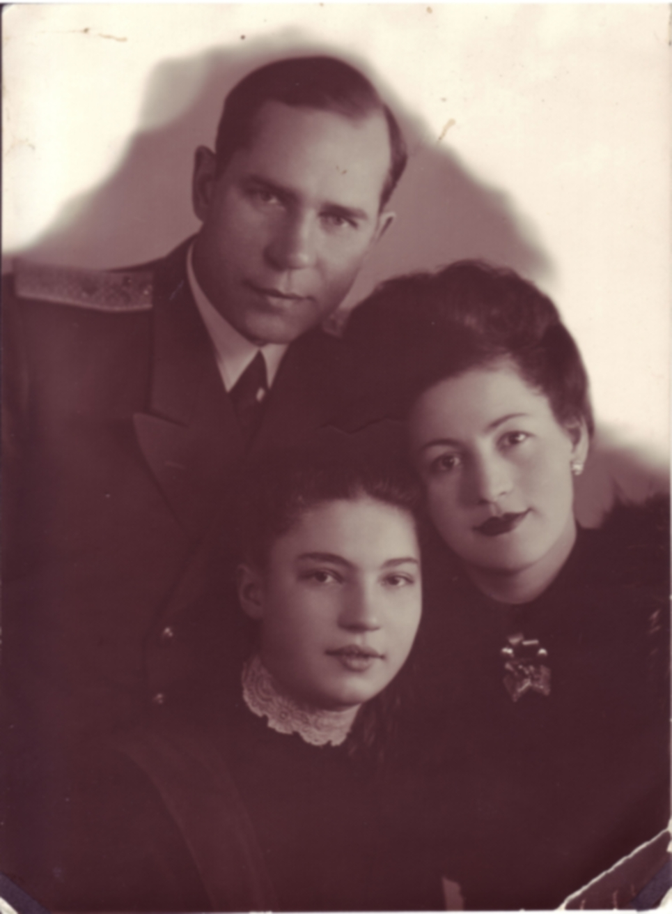 Family photo in Spring 1947